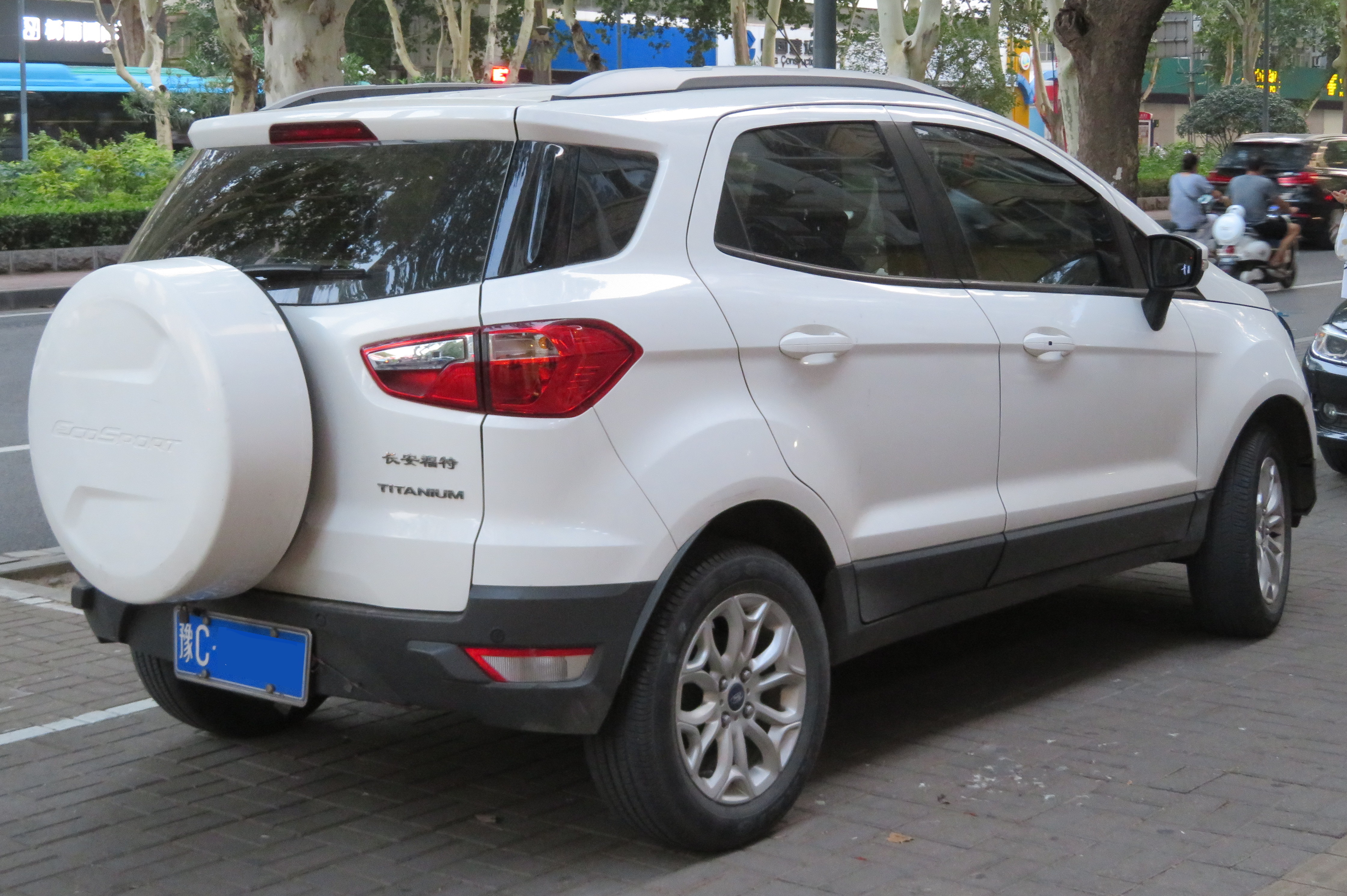 Photographed in Luoyang, Henan province, China